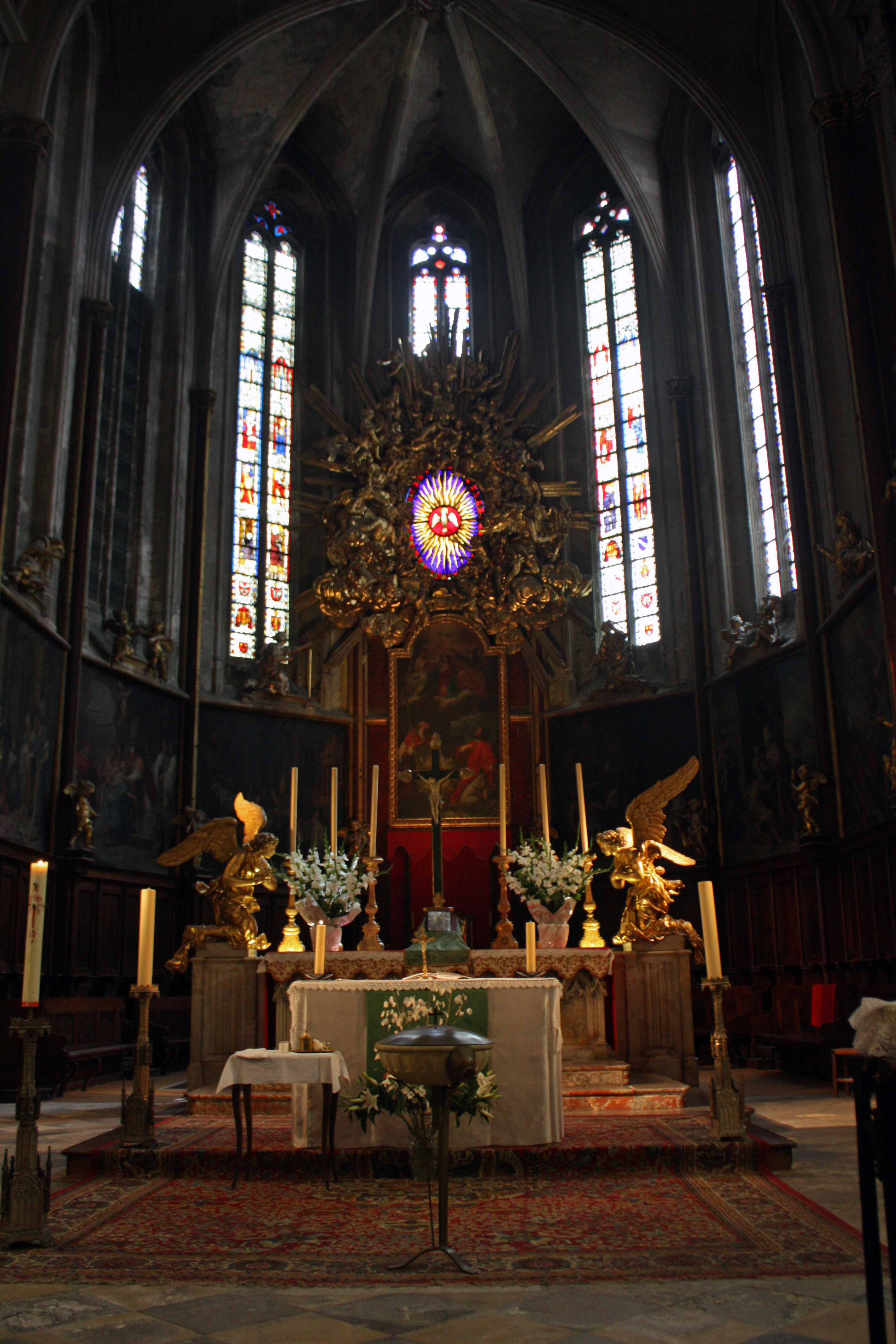 Choir and apse of the former Carpentras Cathedral.